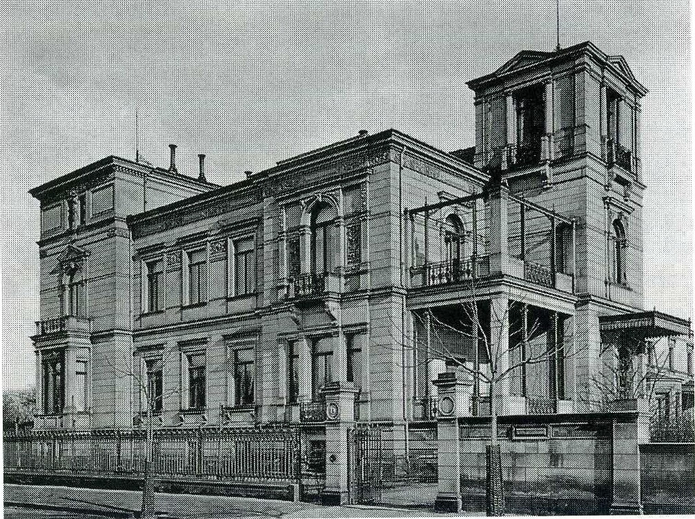 Dresden Haus Goethestraße 1 um 1875 (zerstört)